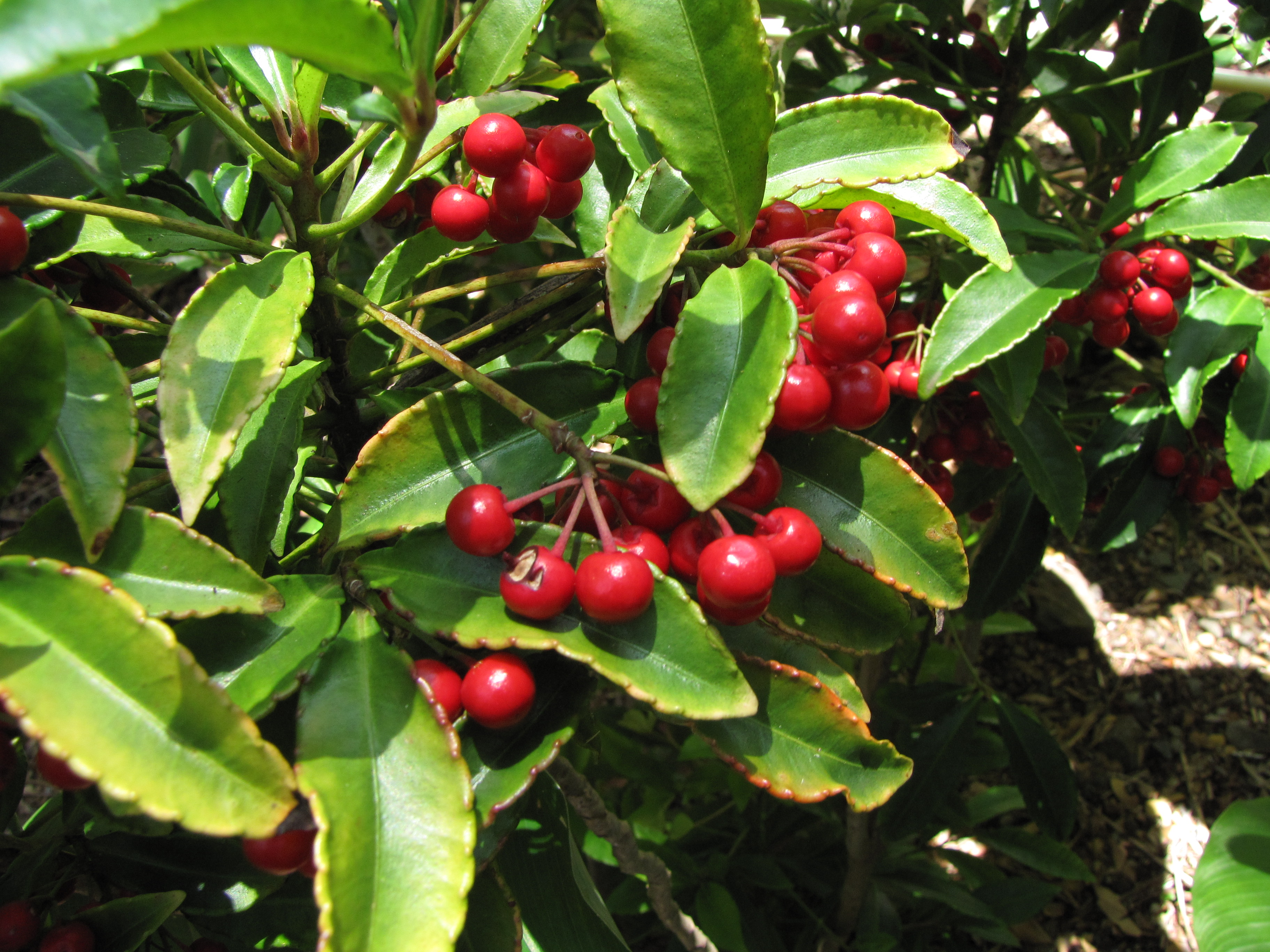 Ardisia crenata (Hilo holly) Fruit and leaves at Iao Tropical Gardens of Maui, Maui, Hawaii. May 22, 2012 #120522-6505 Image Use Policy Also placed in Myrsinaceae.